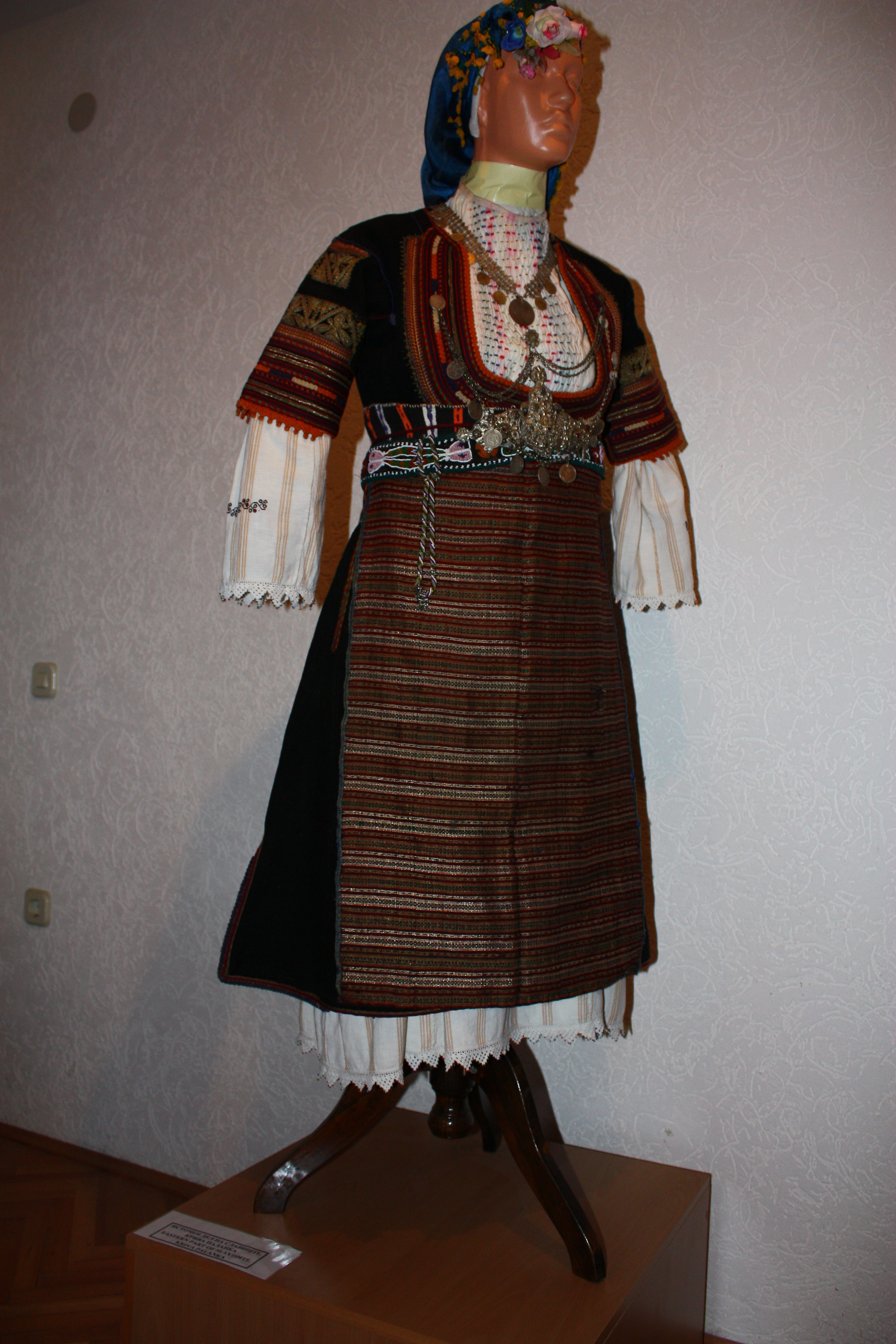 Ethnological Museum in Podmočani, Macedonia